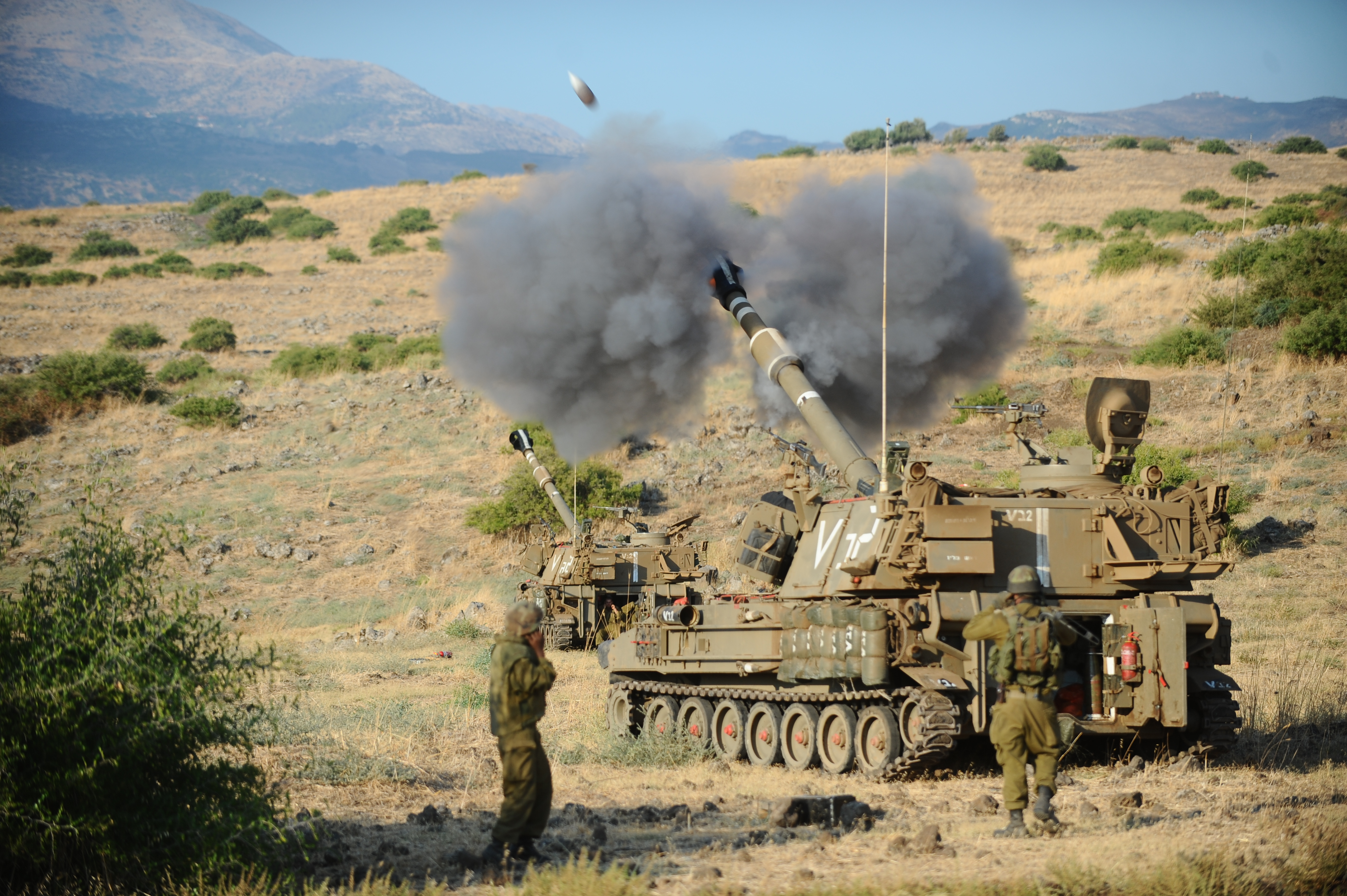 The IDF Artillery Corps is responsible for operating the army's network medium and long-range artillery. The corps is placed in charge of two principal tasks: assisting the maneuvering forces at the necessary time place, and with the required firepower. Its second task is to confront enemy forces deep inside the battlefield. Photo by Sgt. Ori Shifrin, IDF Spokesperson's Unit